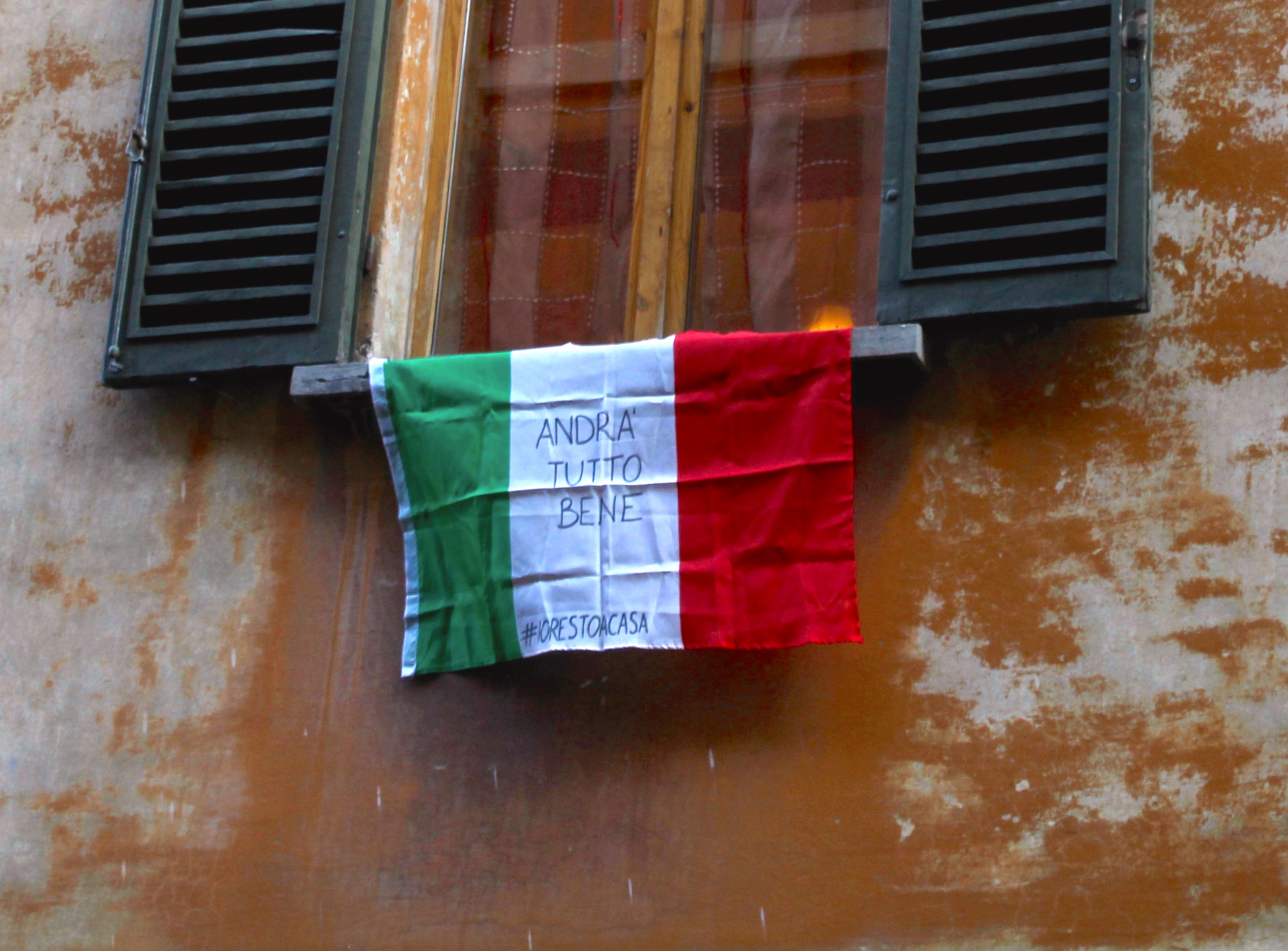 An Italian flag hung outside of a window in Bologna with the slogan "Andrà tutto bene" (Everything is gonna be fine) during the Covid-19 pandemic in 2020. (#iorestoacasa: #istayathome)